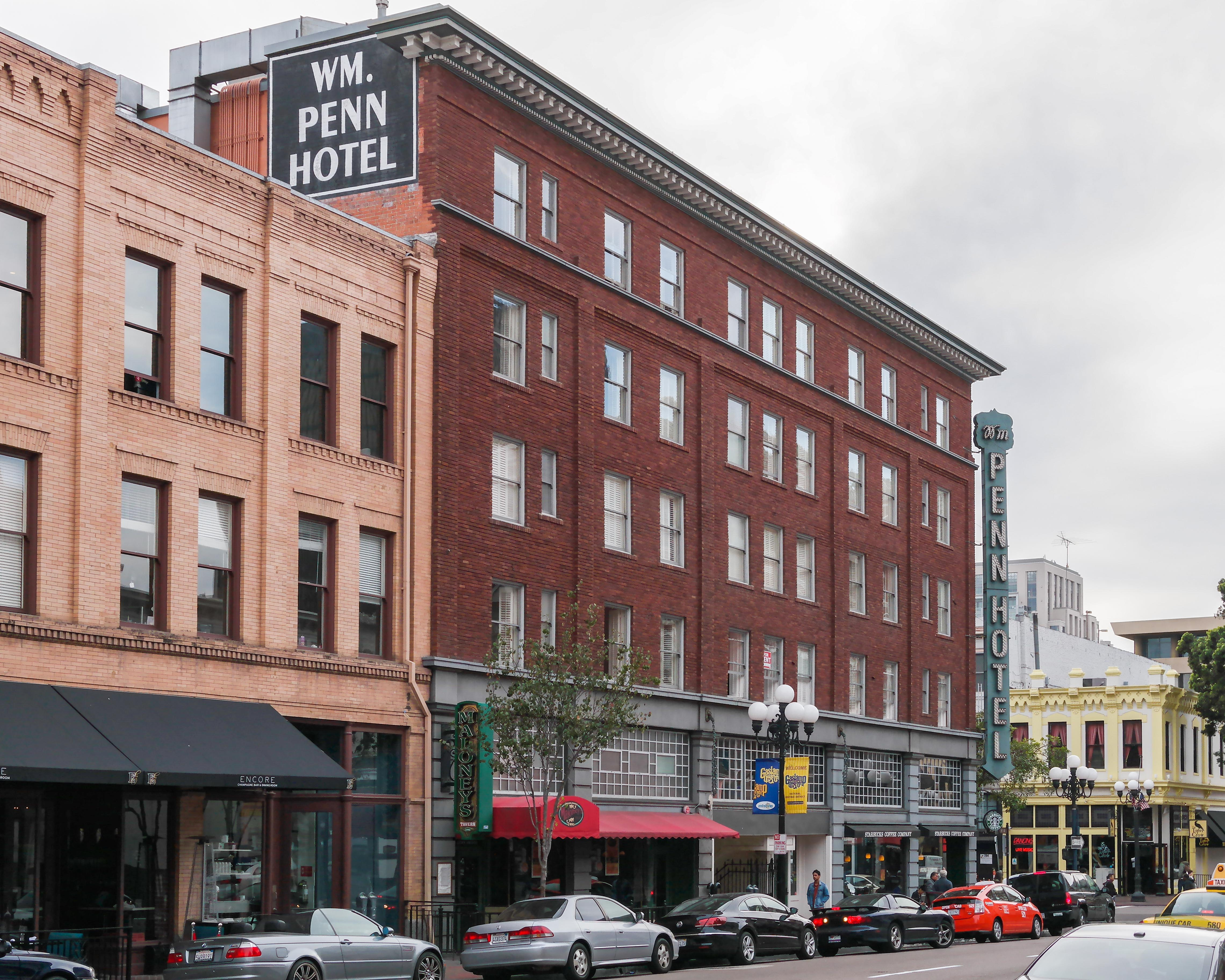 Originally the New Hotel Oxford in 1913, the building became the William Penn Hotel in 1930. In 1965 the largest shootout in San Diego history until that time occurred in a pawn shop on the ground floor of the hotel. Also visible are part of the George Hill Building to the left and the Spencer-Ogden Building to the right.